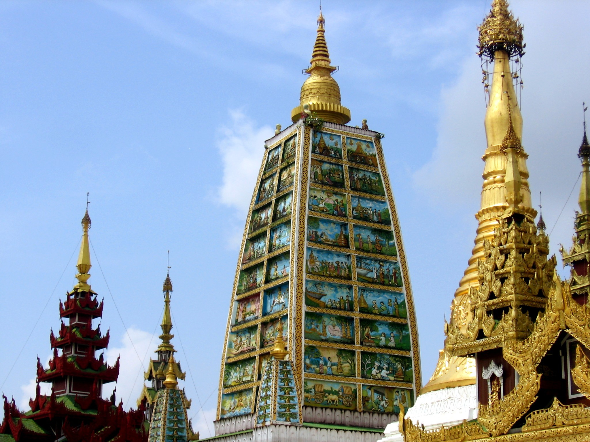 The Shwedagon Pagoda (officially titled Shwedagon Zedi Daw) is a 98-metre gilded stupa located in Yangon, Myanmar.